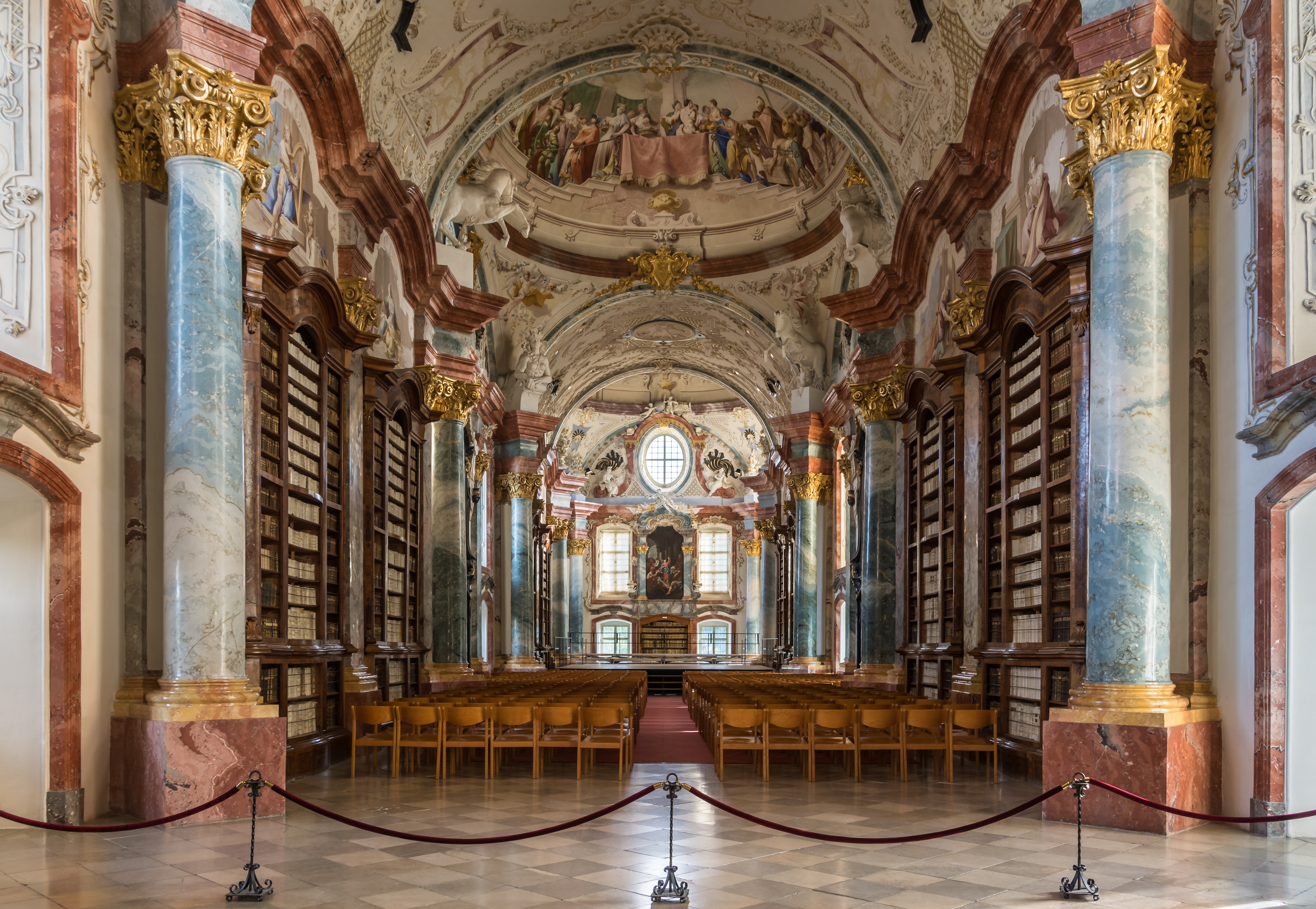 Library of Altenburg Abbey, Lower Austria